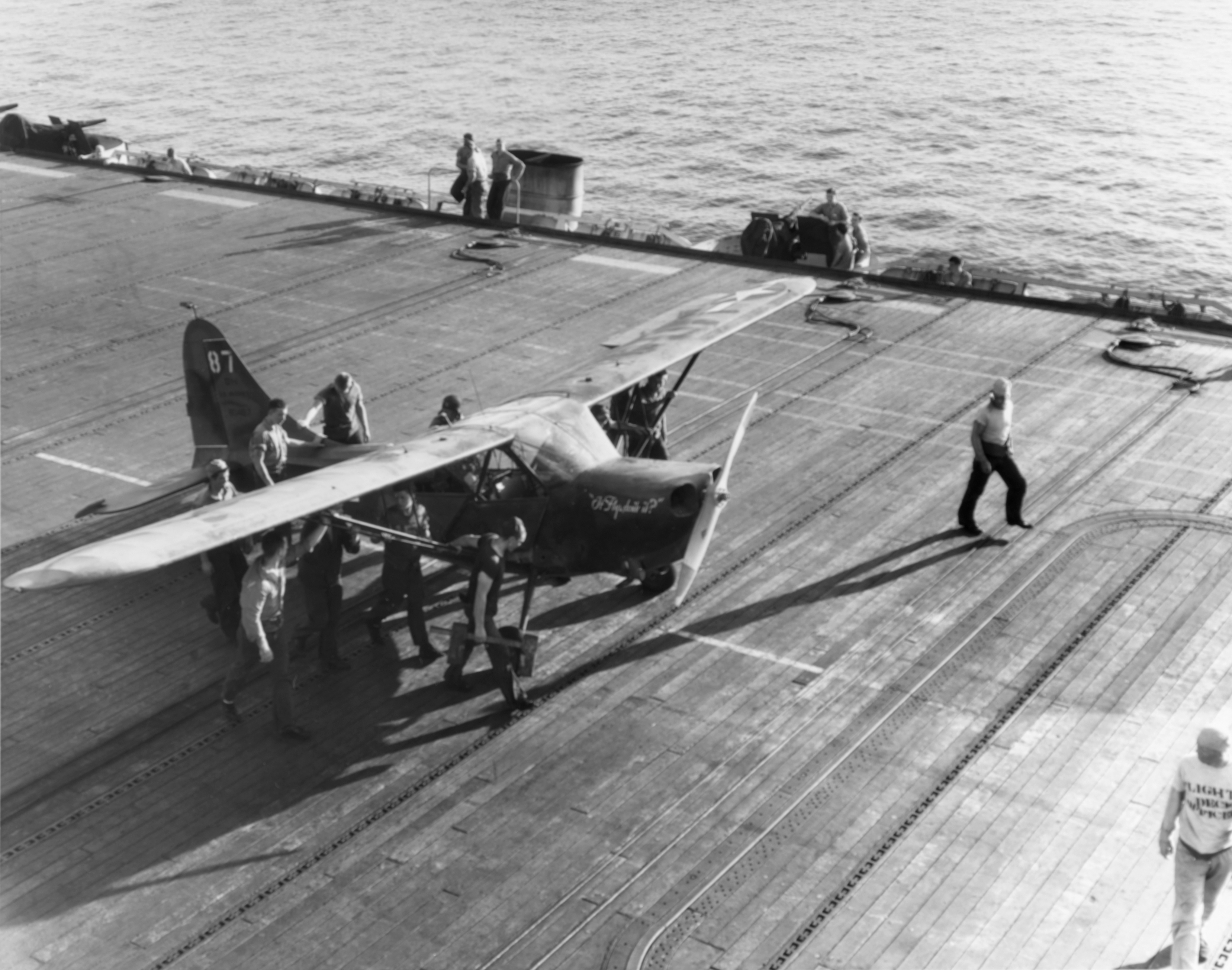 A U.S. Marine Corps Stinson OY-1 Grasshopper being manhandled on the flight deck of the escort carrier USS Petrof Bay (CVE-80) on 19 September 1944, during the Peleliu operation ("Operation Stalemate II"). Note the motto on the cowling: "It flies, don't it?".